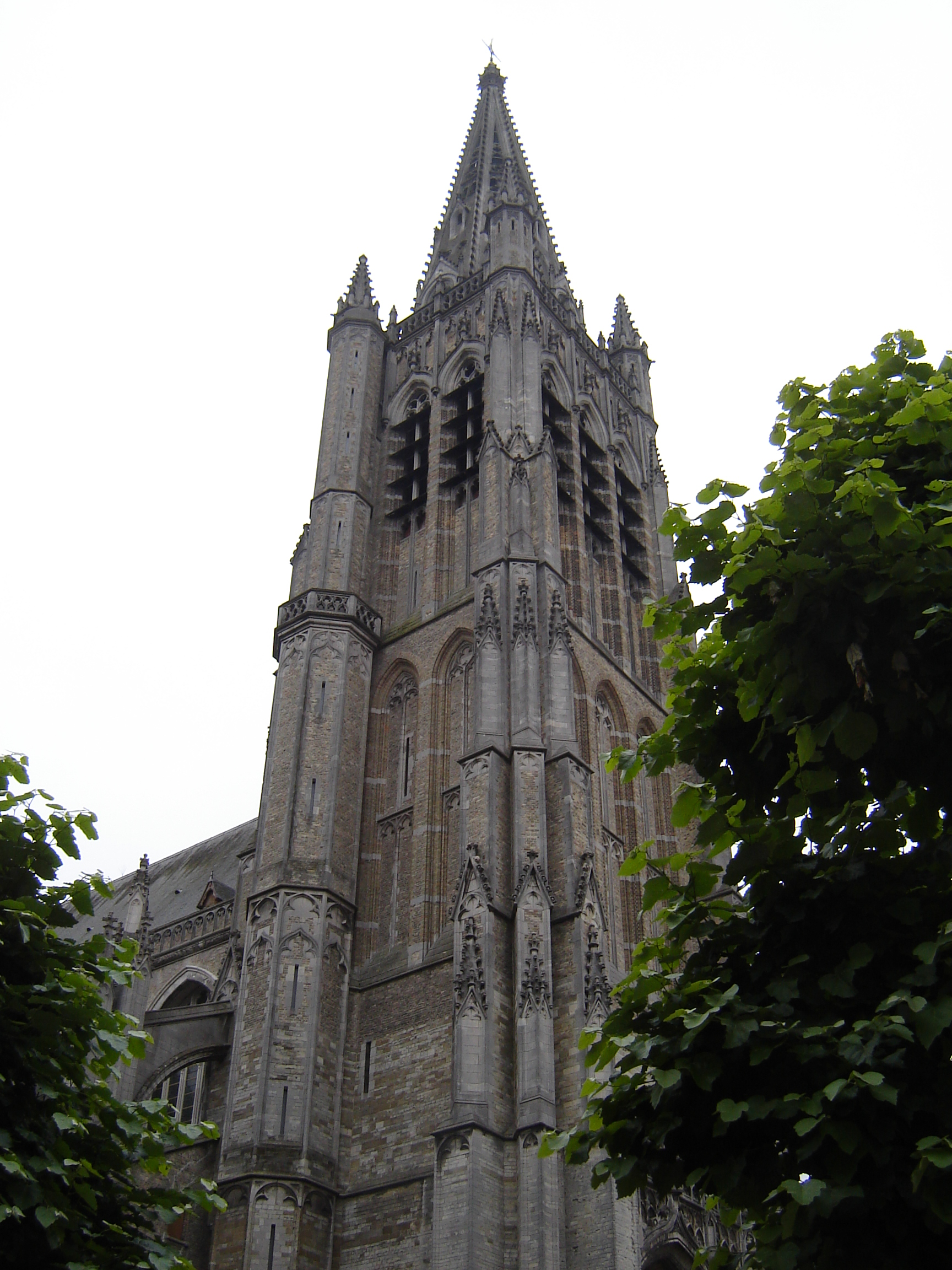 Cathedral of Saint Martin in Ieper, West Flanders, Belgium